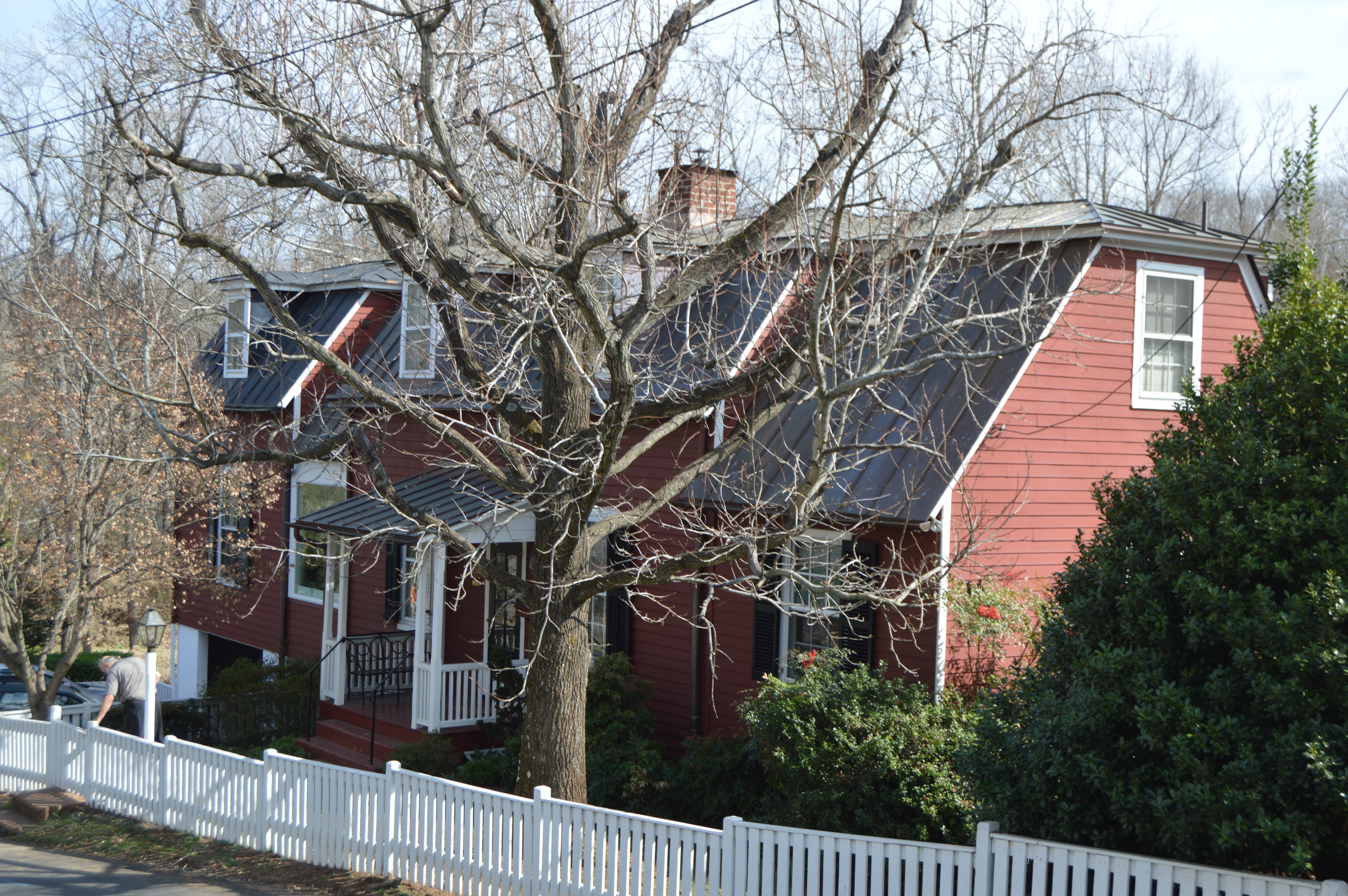 Front and southern end of the House at Pireus, located at 302 Riverside Avenue in Charlottesville, Virginia, United States. Built in 1830, it is listed on the National Register of Historic Places.